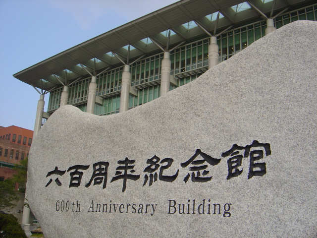 Sign for the 600th Anniversary Hall on Sungkyunkwan University's Seoul campus. Taken by Visviva